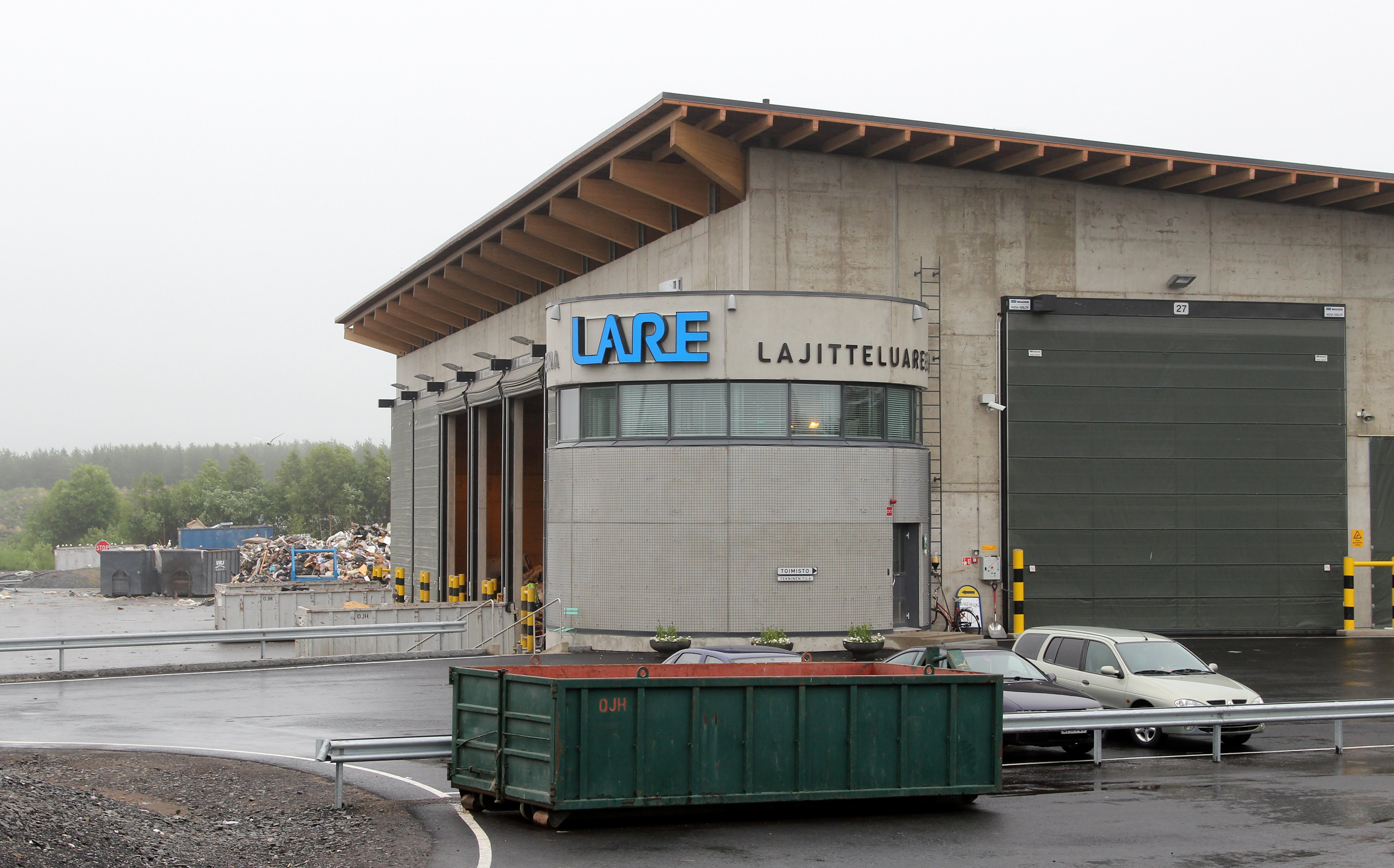 Waste sorting building in Rusko landfill in Oulu. The station was opened in October 2012.